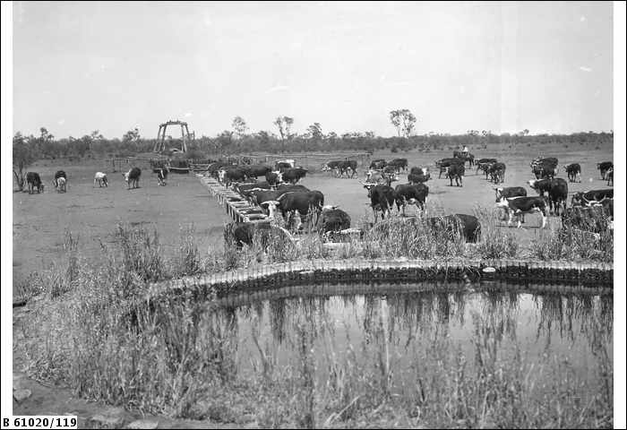 Cattle on the Todmorden Station Ca1950